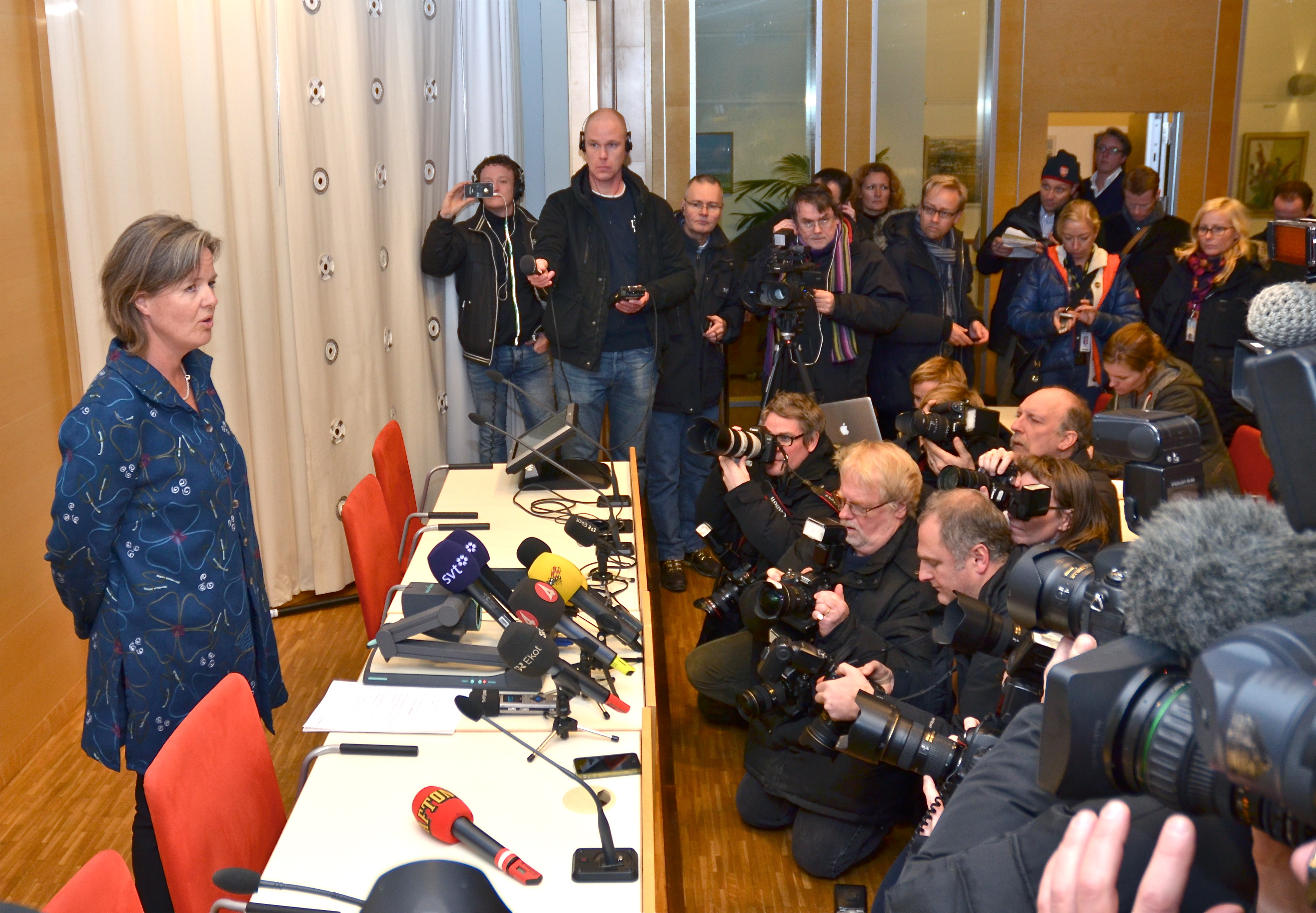 After two-day Executive Committee meeting the Social Democrats, the party Secretary Carin Jämtin in January 20, 2012 hold a short press conference where journalists are not allowed to ask questions. "We have continued confidence in our leader," she says.